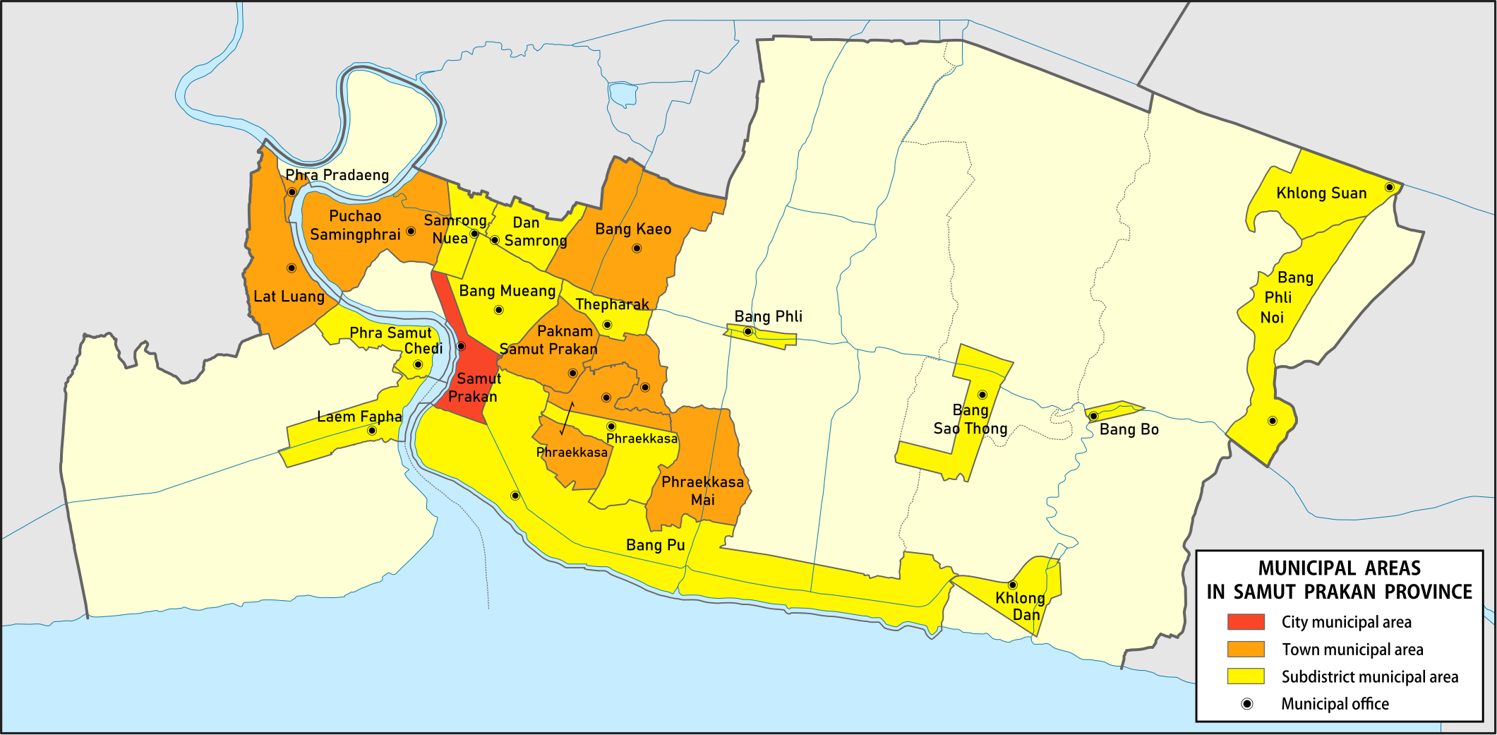 Map of municipal areas in Samut Prakan Province: City municipalities (thetsaban nakhon) Town municipalities (thetsaban mueang) Subdistrict municipalities (thetsaban tambon)